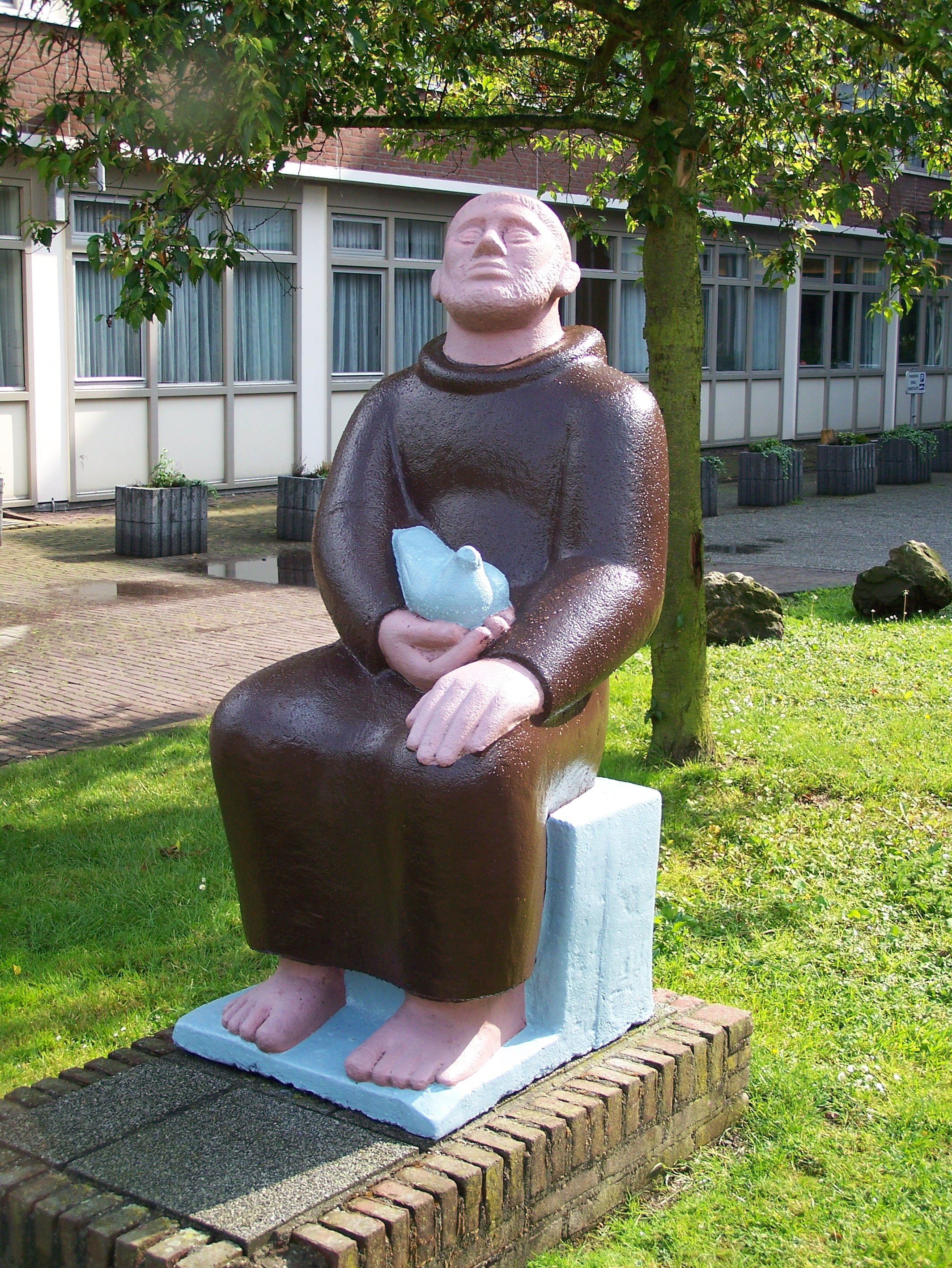 Sculpture of a Monk with a dove (Monnik met duif) placed at the eastside entrance of the Klevarie at the Abtstraat, made by Frans Timmermans. The colourpainting was recently added.